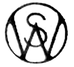 Werkspoor logo low quality